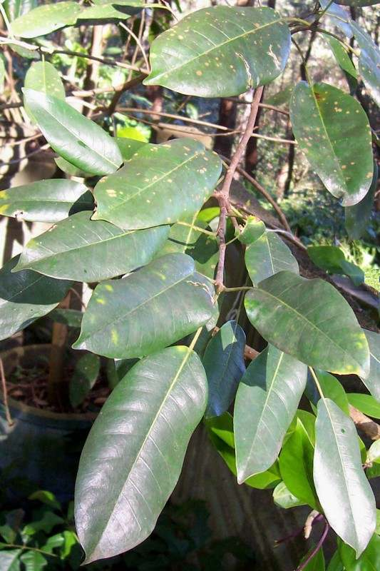 Ficus superba var. henneana leaves